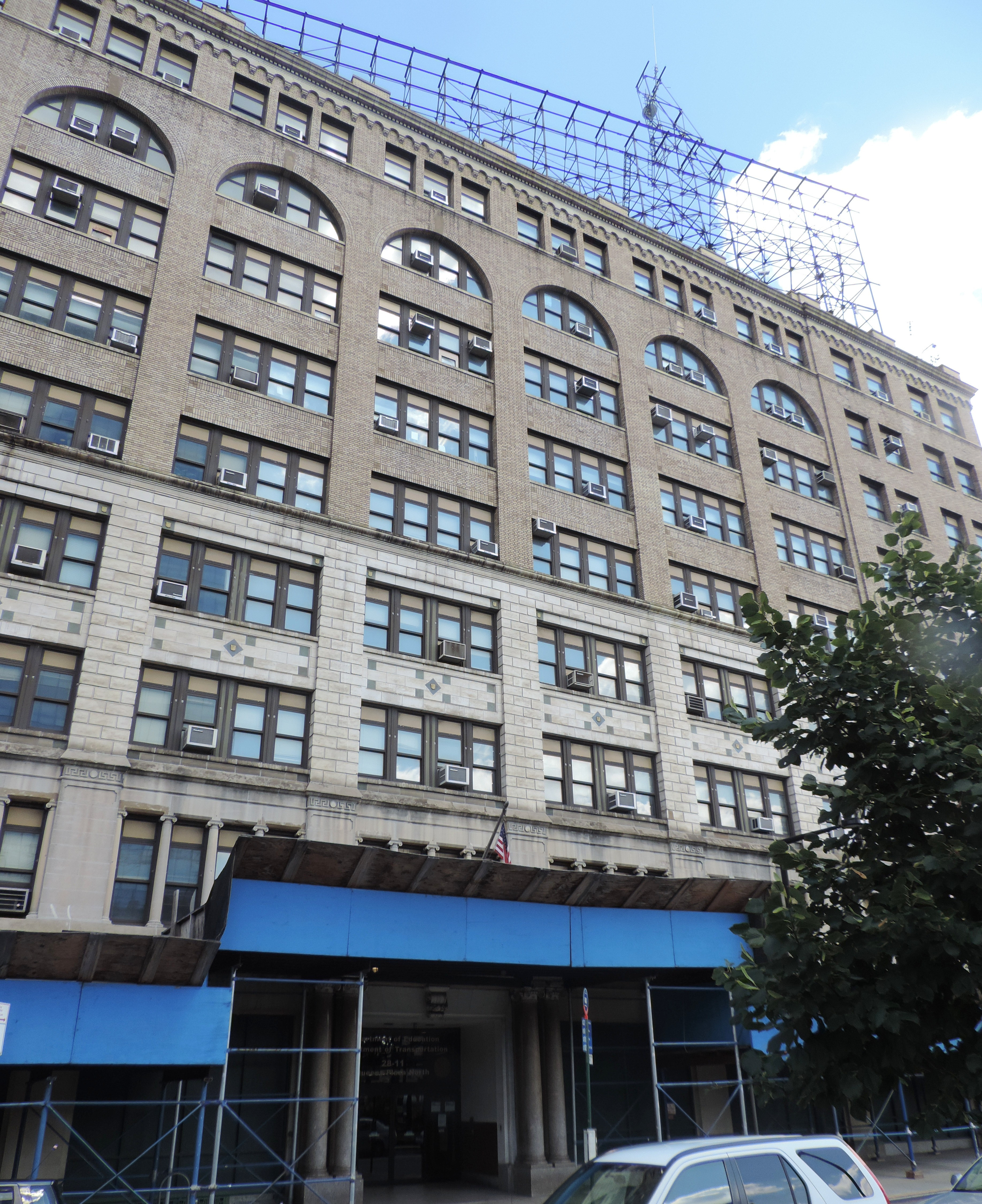 Looking northeast at Education / Transport building on a mostly sunny late morning.